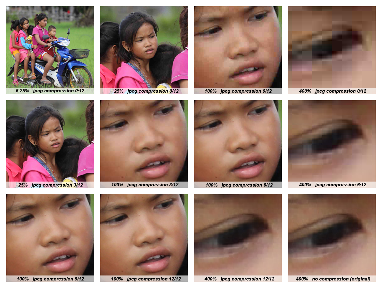 Visual impact of a jpeg compression on Photoshop on a picture of 4480x4480 pixels. This file of comparisons gives an idea about the quality of a jpeg image according to various rates of size and compression on Adobe Photoshop. The minimum rate of compression is 0/12 (lowest quality) showing very visible artifacts at 100% and above. The maximum rate is 12/12 (best quality), generating images totally similar to the original at 400%. At 6/12, the level of compression starts to be visible at 100%, but is very subtle and the artifacts are easier to see at 400%. There's no distinguishable difference between the rates 9/12 and 12/12 at 100% of the size. Not shown here, the intermediate compression rates 1/12, 2/12, 4/12, 5/12, 7/12, 8/12, 10/12 and 11/12 are also available with the software. Original file: JPEG version RAW version DNG version